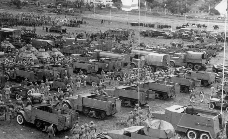 Yiftach Brigade Second Battalion on parade marking first anniversary of the occupation of Haifa